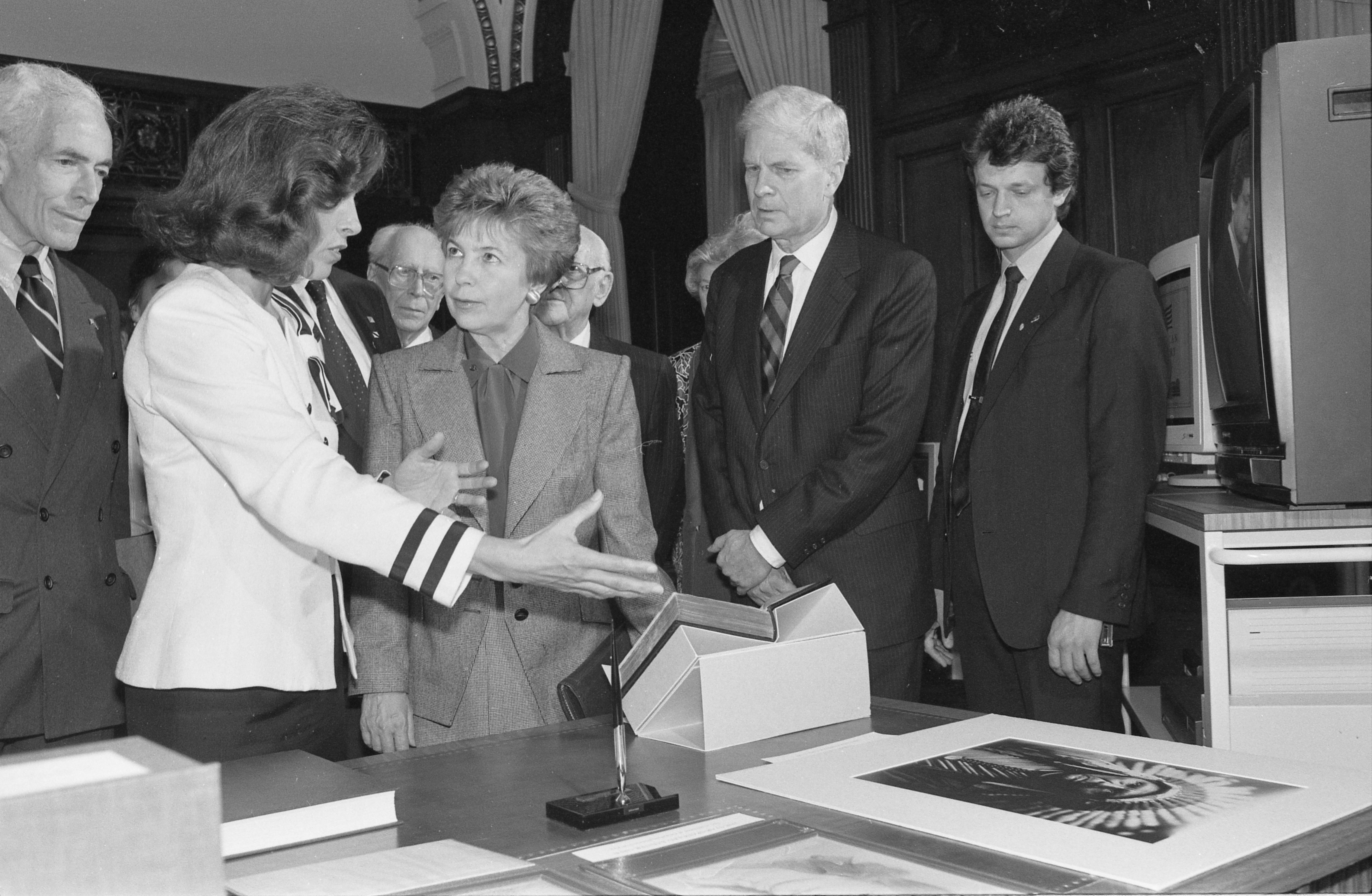 Photograph shows Raisa Gorbachev (center), wife of Soviet president Mikhail Gorbachev, listening to Marilyn Quayle, wife of Vice President Dan Quayle, at a display of books and other items at the Library of Congress. Others depicted in the image are Senator Claiborne Pell (left), businessman Armand Hammer (behind Gorbachev to her right) and the Librarian of Congress James H. Billington (right of Gorbachev).